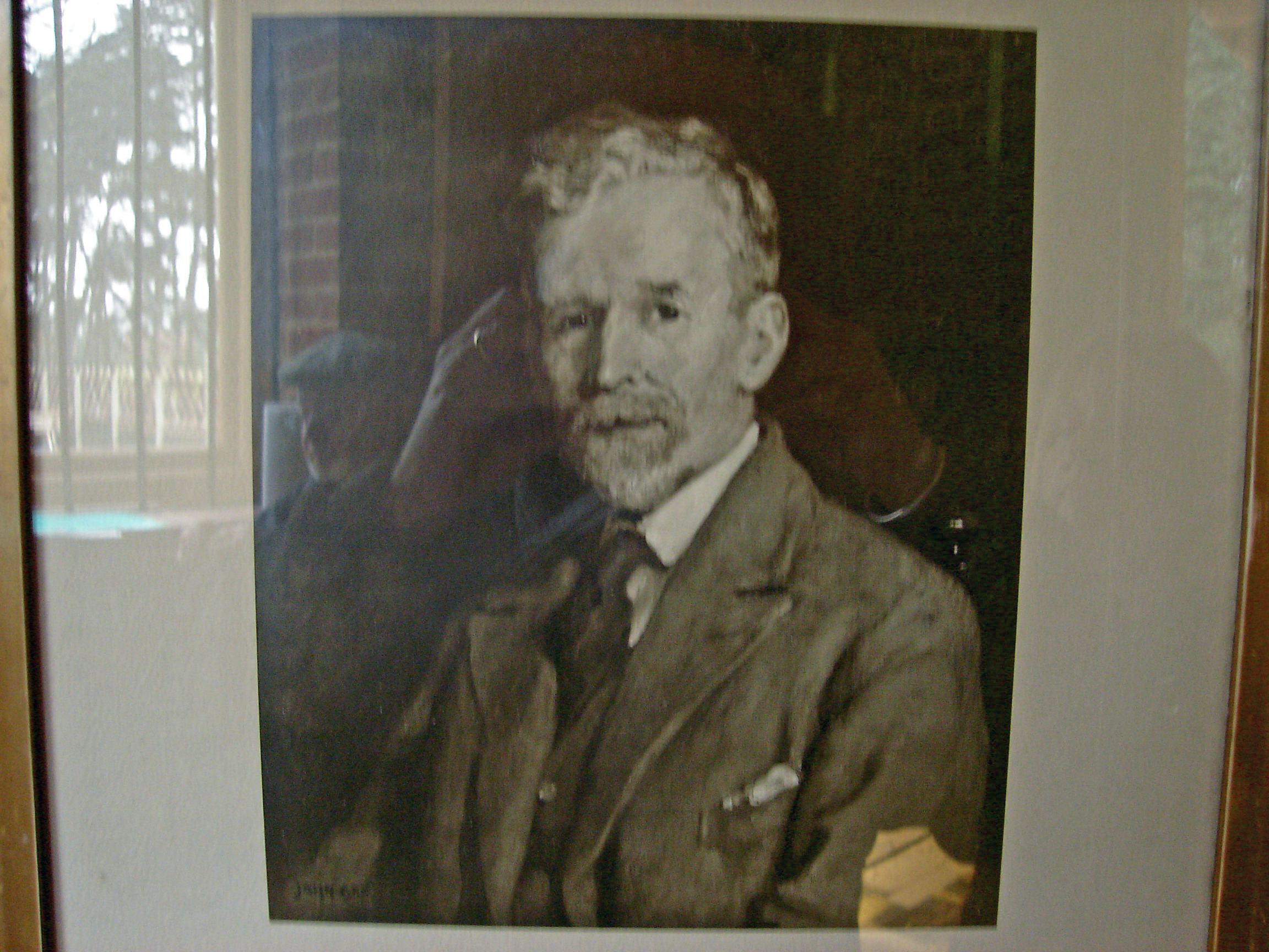 Picture of a portait of William Marriott on public display at the William Marriott museum at Holt railway station, Norfolk